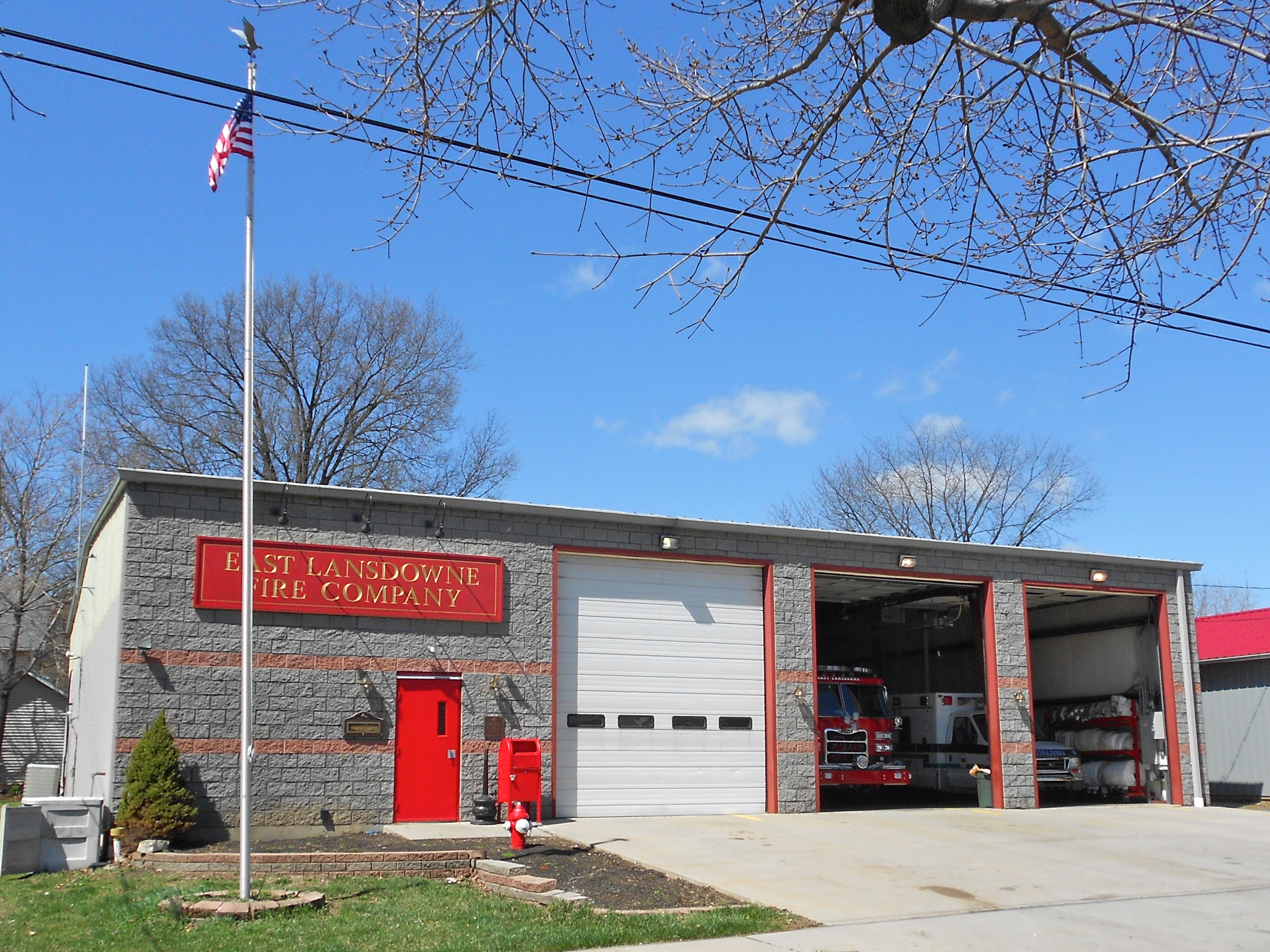 Fire station in East Lansdowne, Pennsylvania